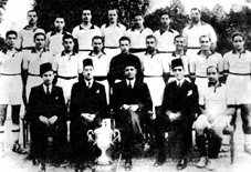 Zamalek squad with Egypt Cup 1938-1939.